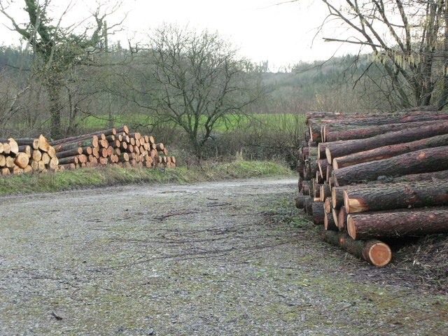 Harridge Wood Nature Reserve Logs awaiting collection. This site is at the entrance to the nature reserve and there is an information board and map nearby.